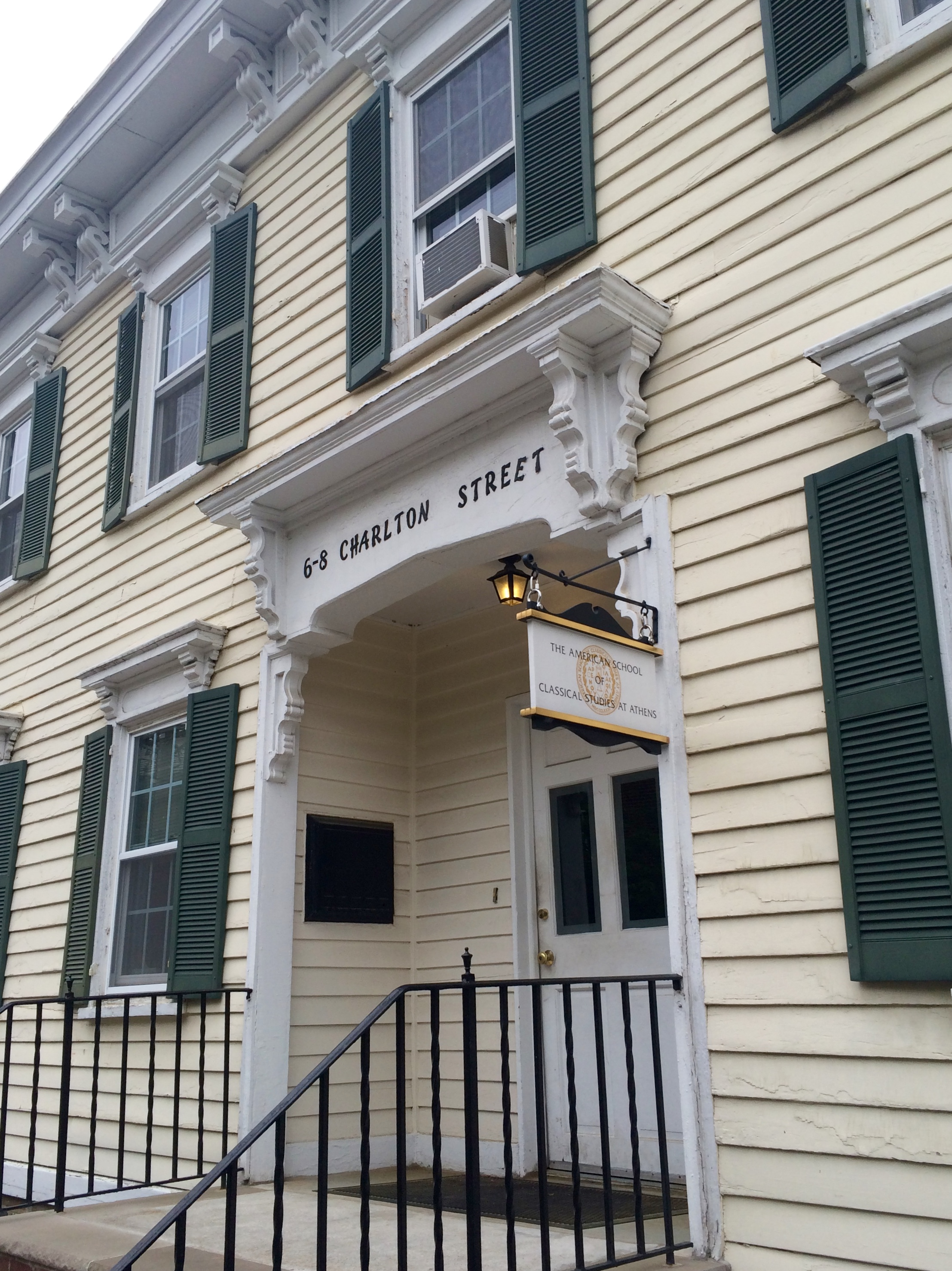 The American offices of the American school of Classical Studies at Athens, located at 6-8 Charlton Street in Princeton, New Jersey.